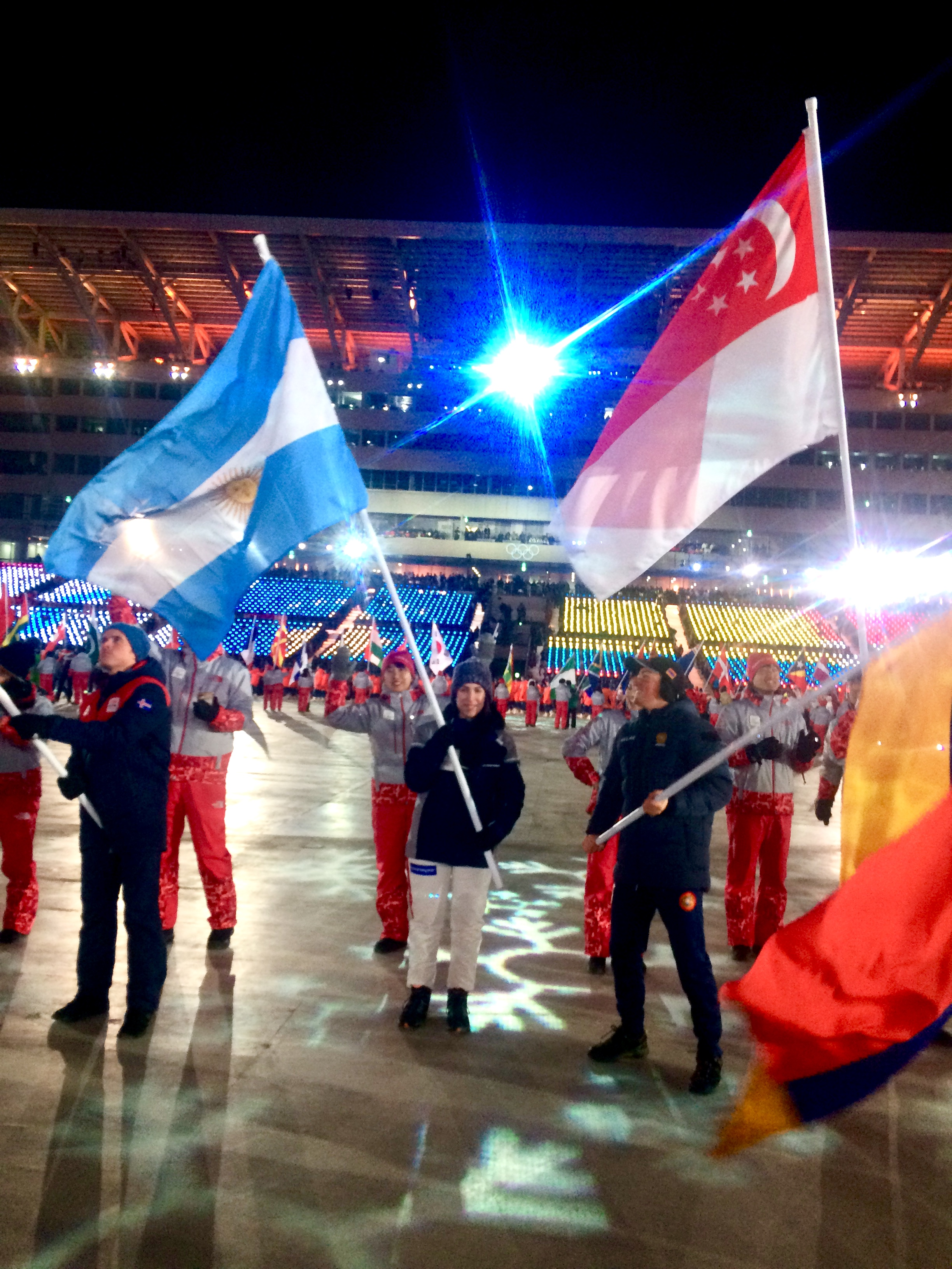 Argentine luger Verónica Ravenna as flag bearer during the closing ceremony of the 2018 Winter Olympics